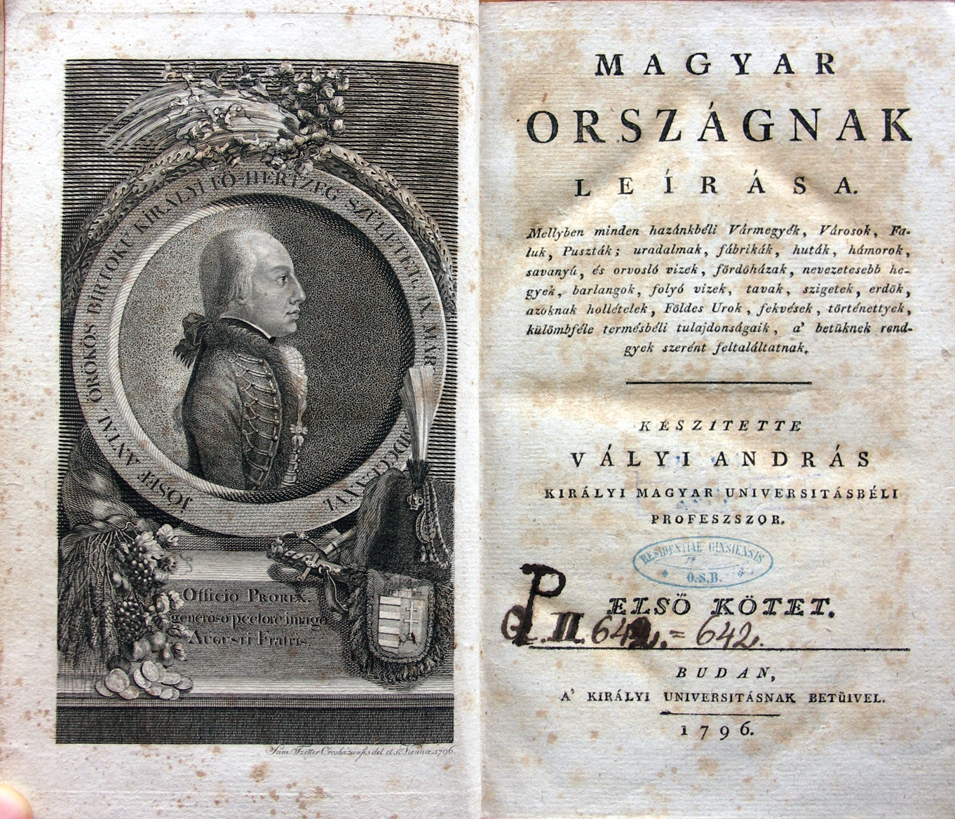 Old hungarian book, author: András Vályi